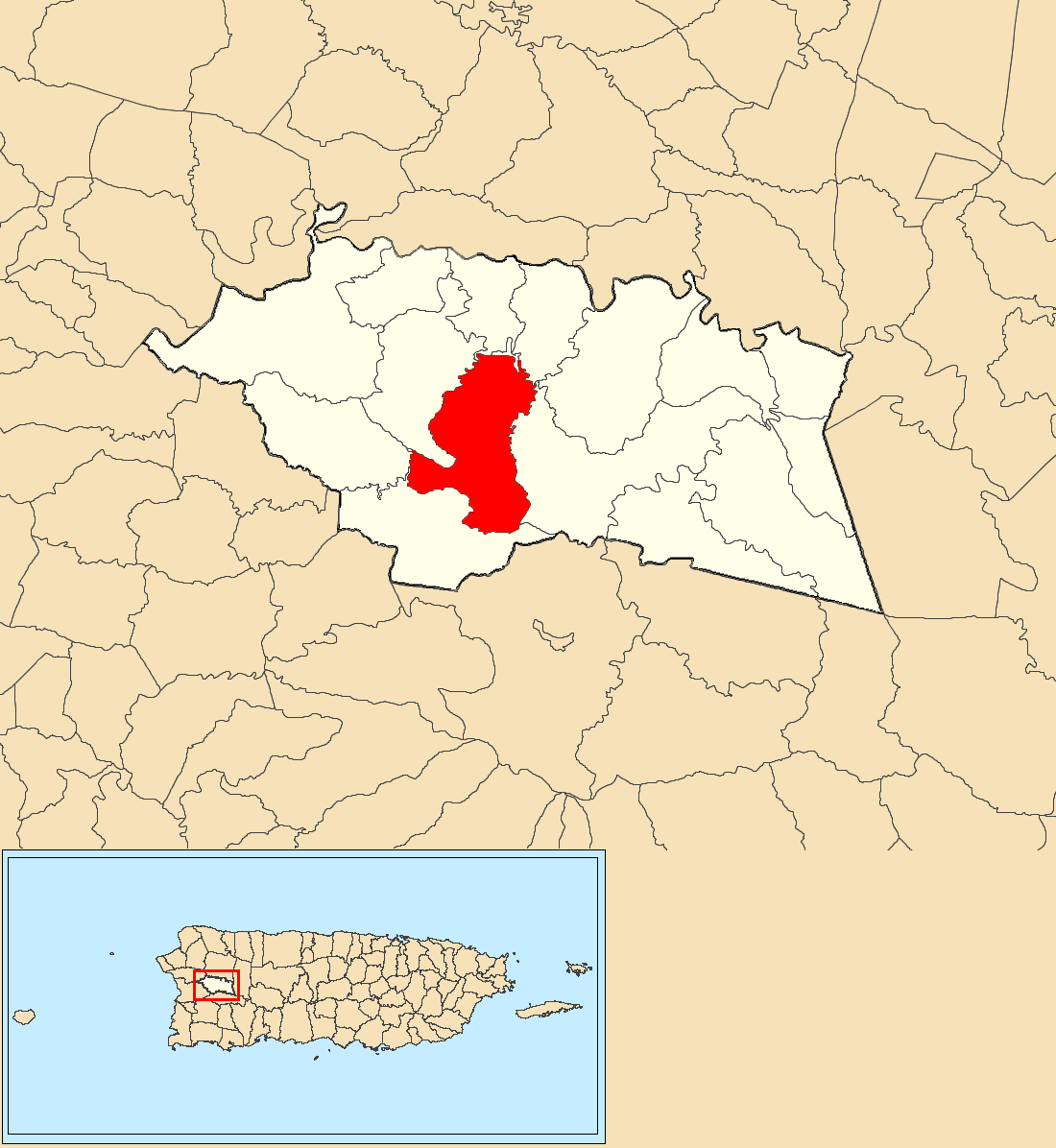 Maravilla Sur, Las Marías, Puerto Rico locator map